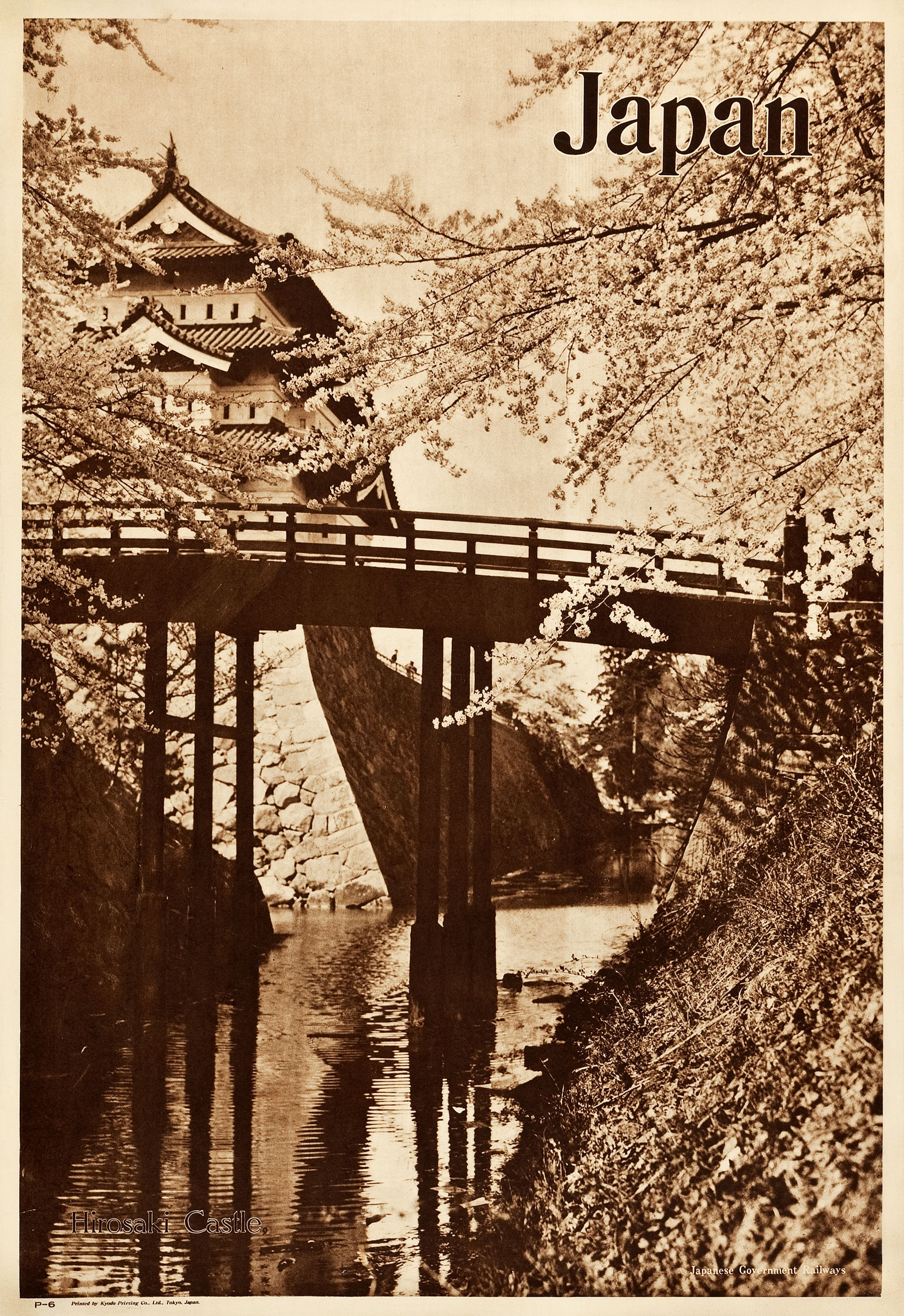 Japanese Travel Poster (Japanese Government Railways, Circa 1936). Japanese Poster (21" X 31").